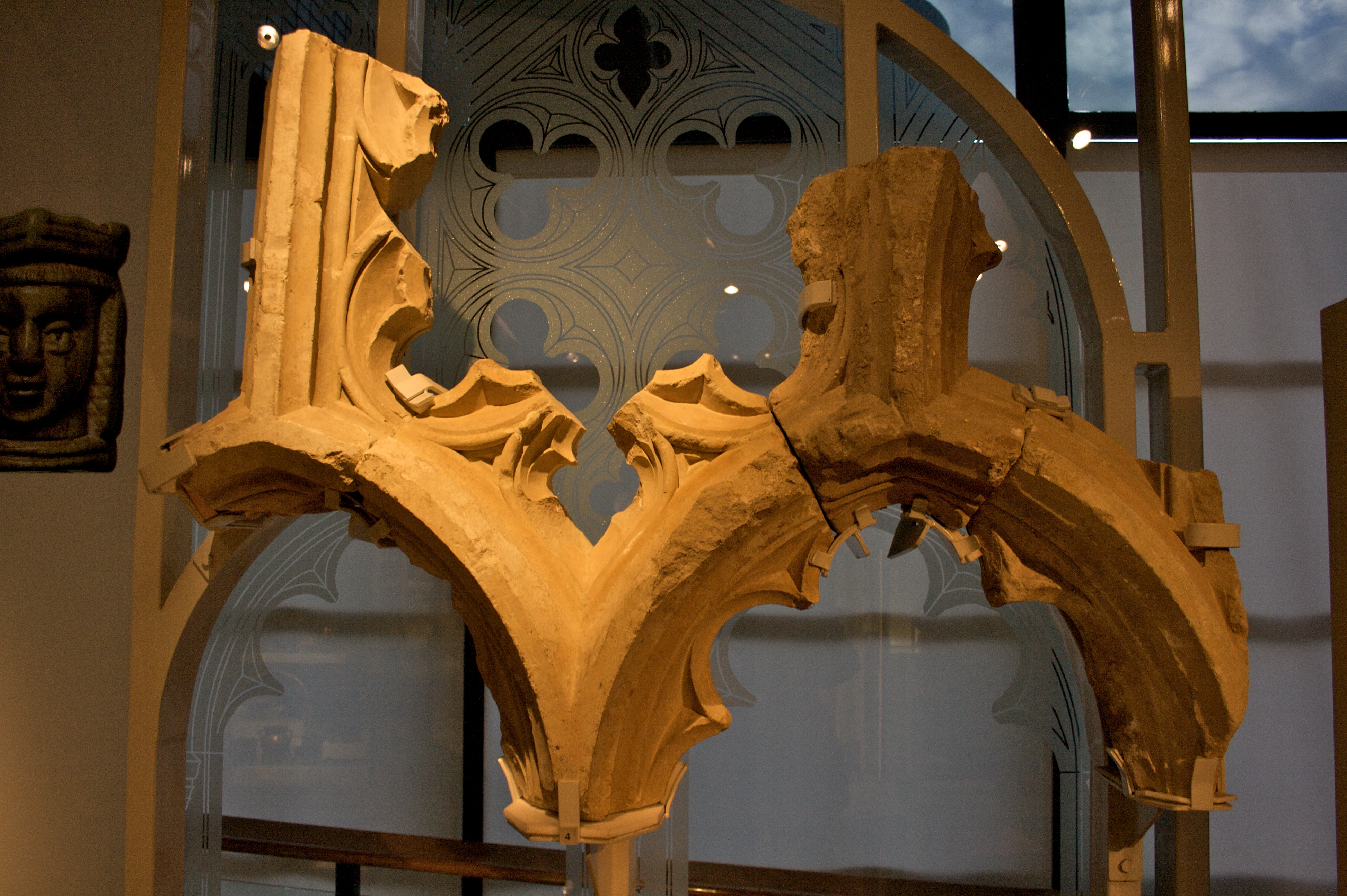 "Tracery from Merton Priory. Late 1300s." On display in the Museum of London.